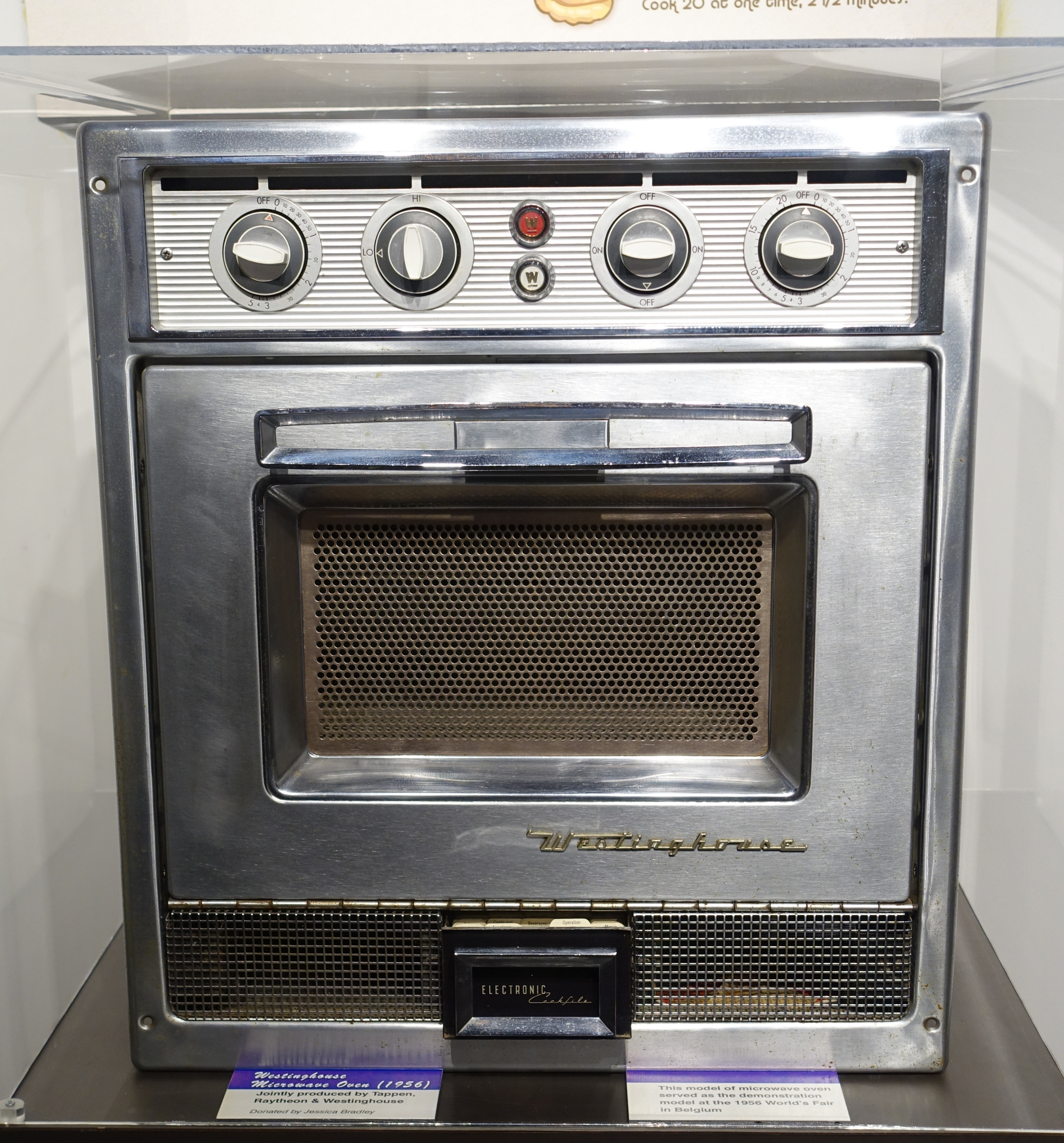 Exhibit in the National Electronics Museum, 1745 West Nursery Road, Linthicum, Maryland, USA. All items in this museum are unclassified. The museum permitted photography without restriction.